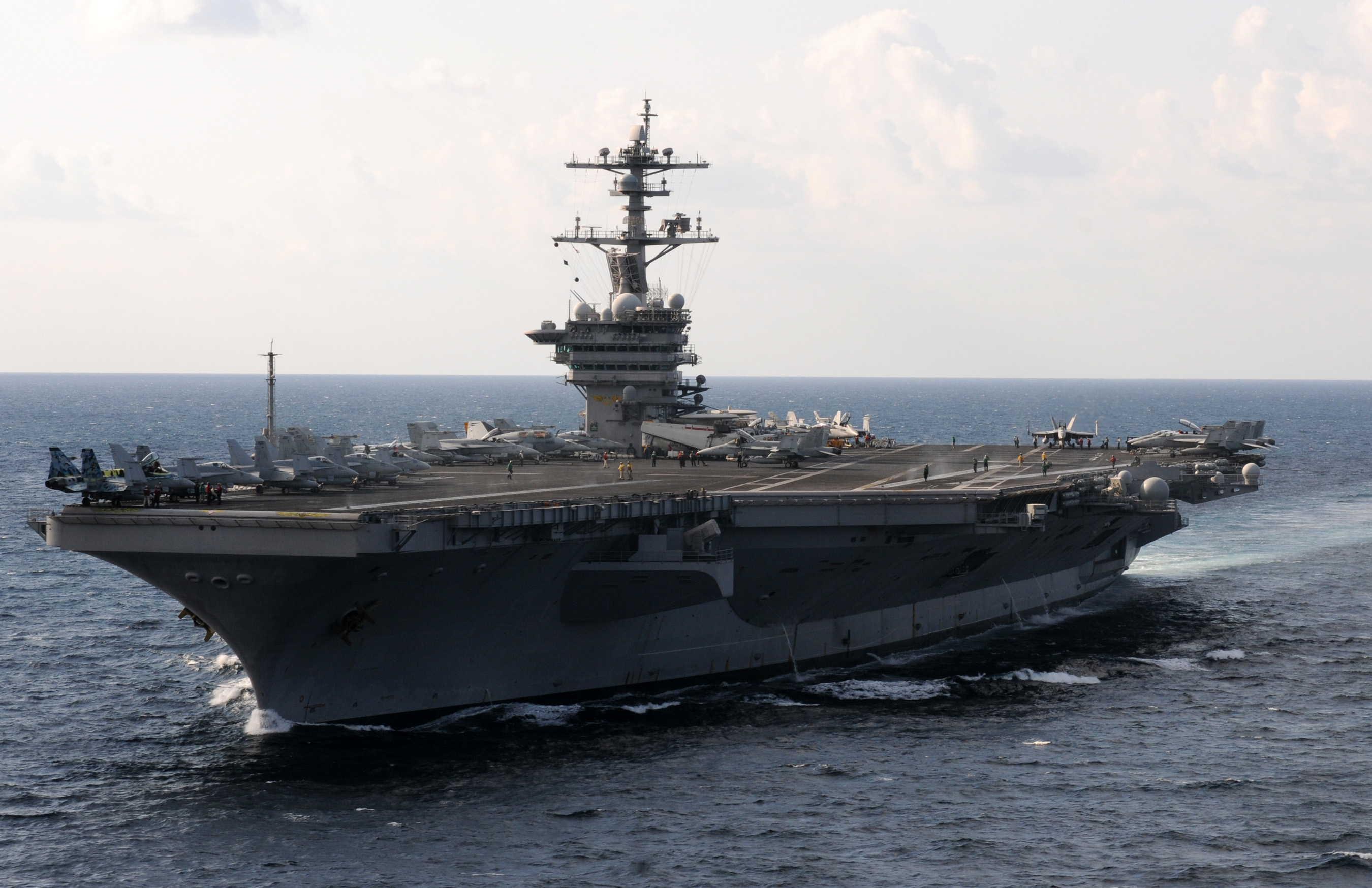 ARABIAN SEA (Jan. 21, 2012) The Nimitz-class aircraft carrier USS Carl Vinson (CVN 70) is underway in the Arabian Sea. Carl Vinson and Carrier Air Wing (CVW) 17 are deployed to the U.S. 5th Fleet area of responsibility. (U.S. Navy photo by Mass Communication Specialist 2nd Class Benjamin Stevens/Released)